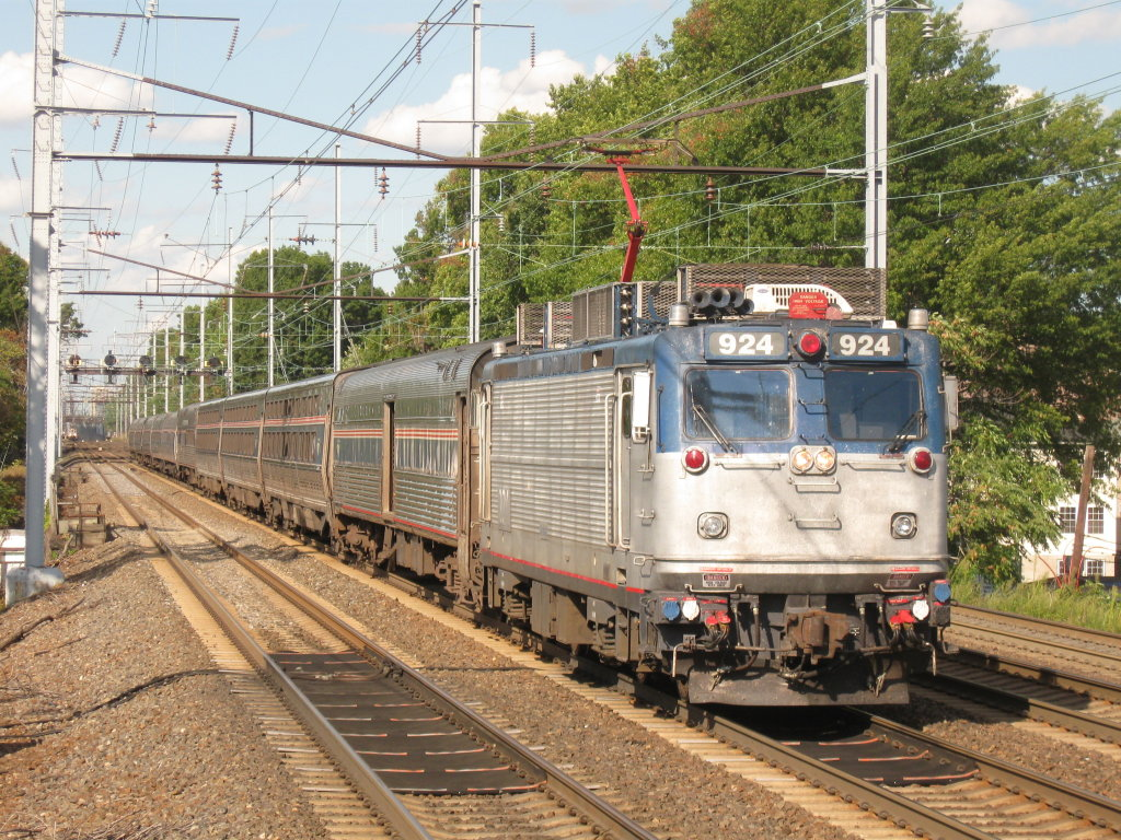 Silver Meteor train #98, under electric power, runs through Elizabeth, NJ, en route to New York.